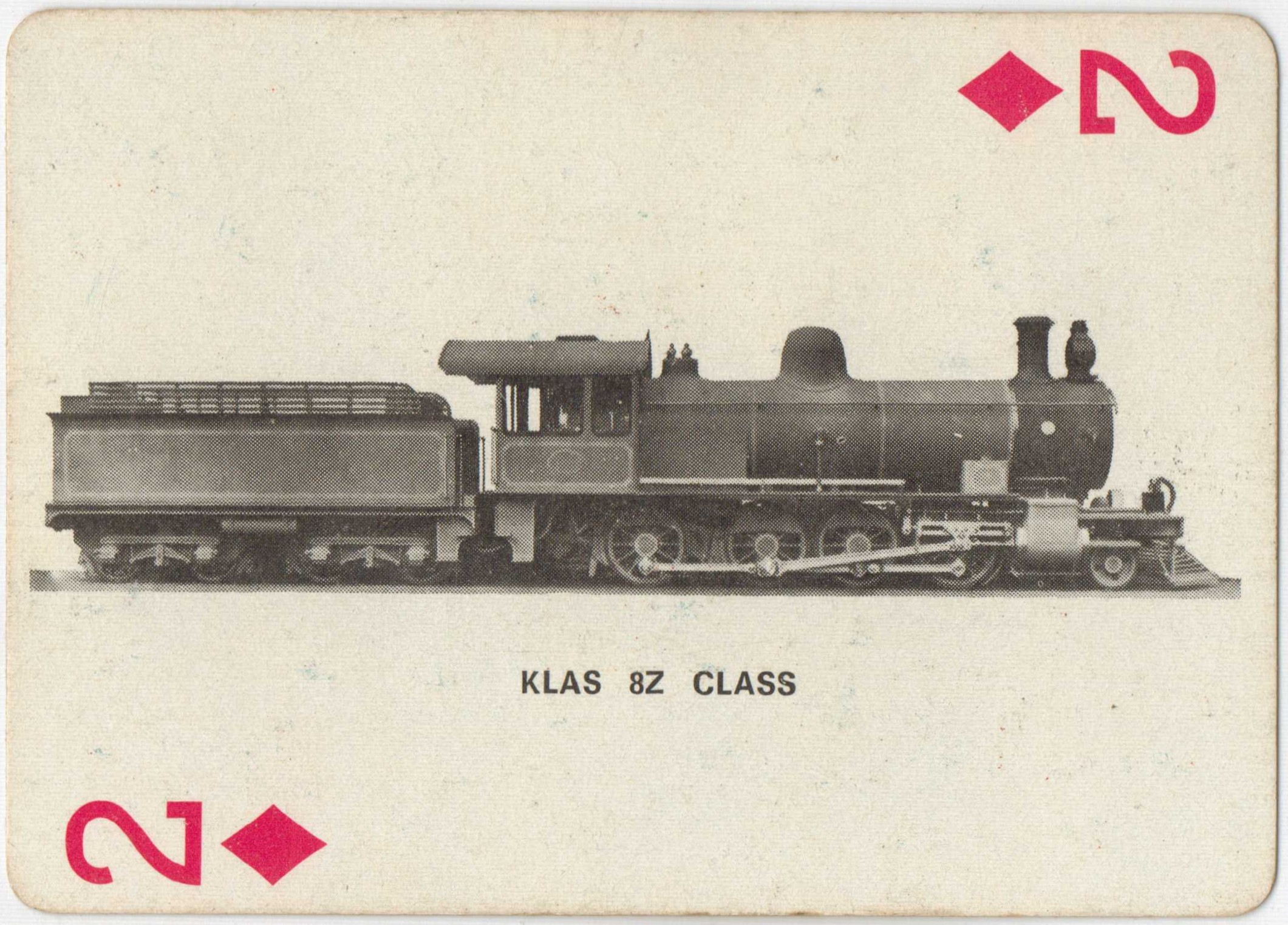 SAR Museum Playing Cards - Diamond Two Class 8Z (2-8-0)